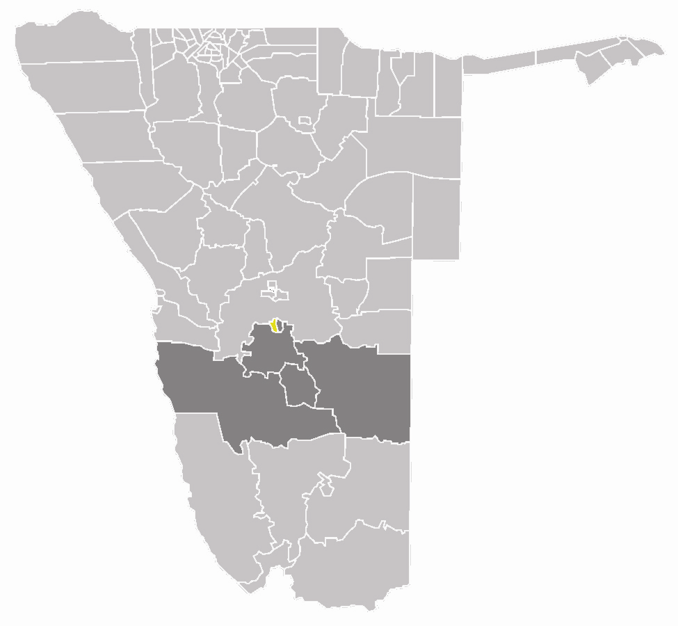 map of the Rehoboth West constituency within the Hardap region, Namibia